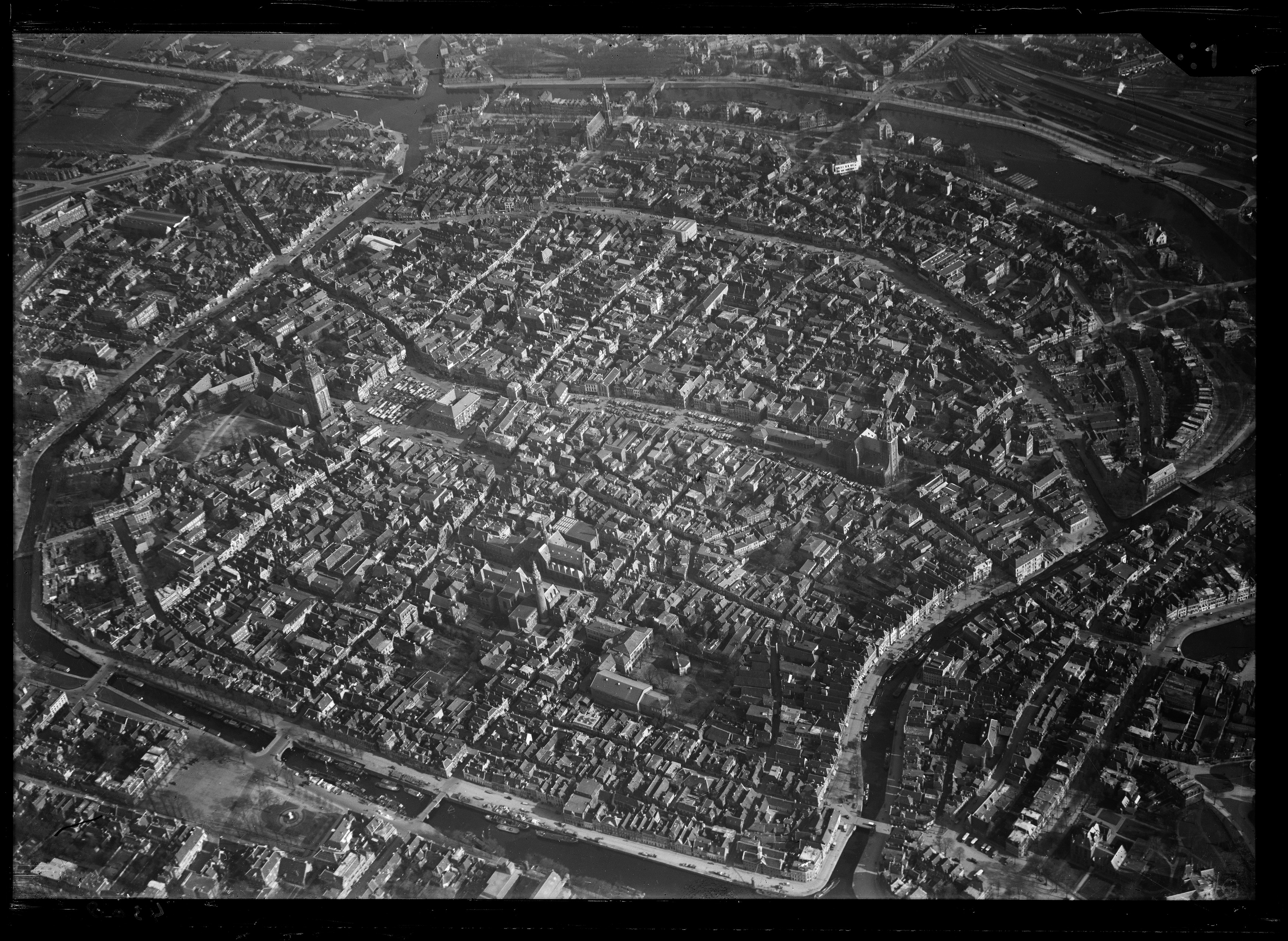 Aerial photograph of Groningen, The Netherlands